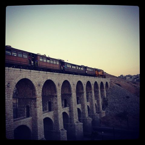 An old train on a very unique bridge railway in east Amman at sunset